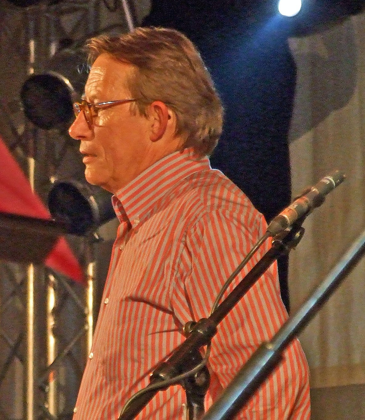 F.C. Delius, during his introductory speech as Stadtschreiber von Bergen, 29. August 2008, Frankfurt Bergen-Enkheim